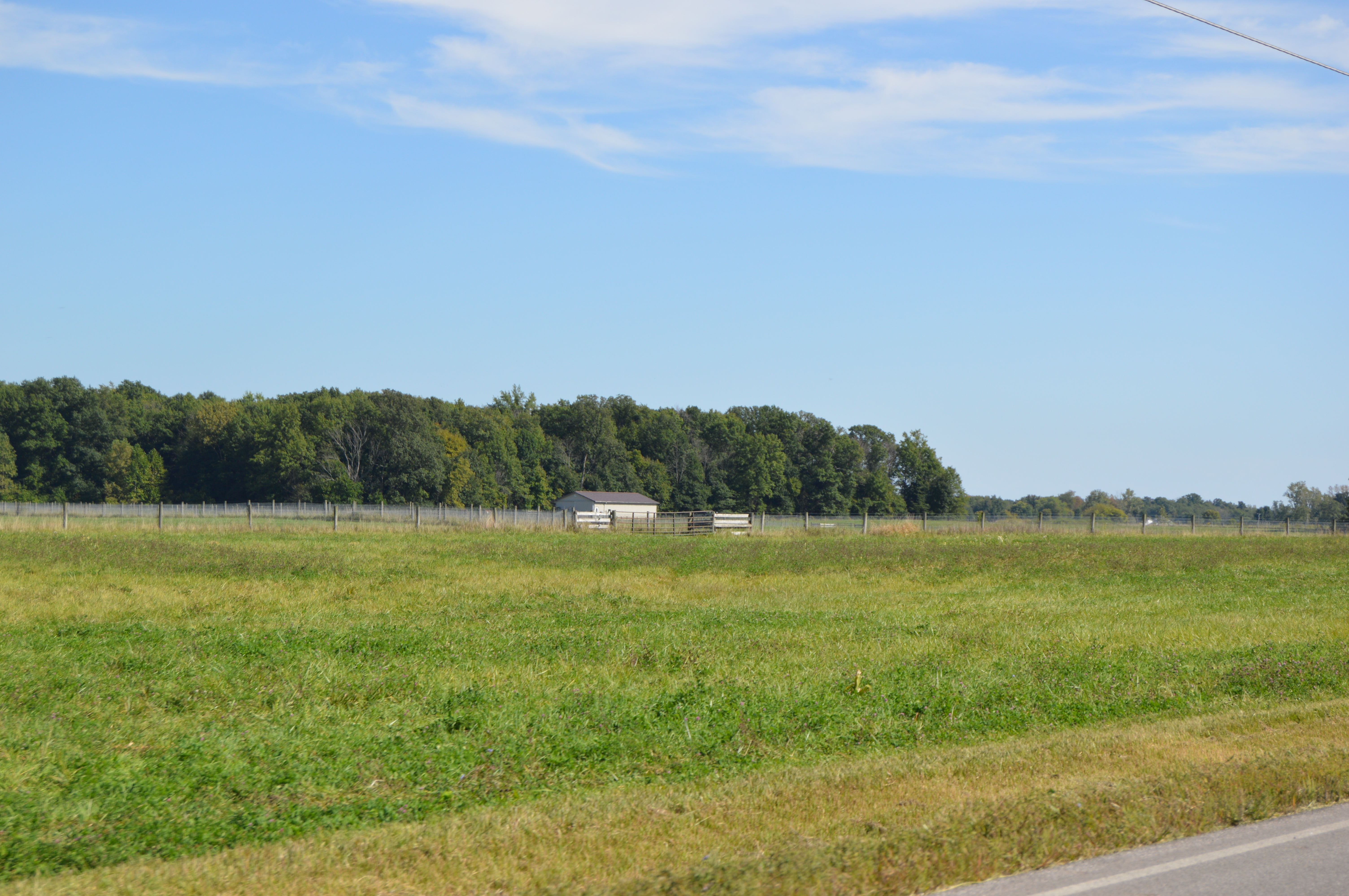 Fields and a farm building on the eastern side of State Route 37 just north of Magnetic Springs in Leesburg Township, Union County, Ohio, United States.